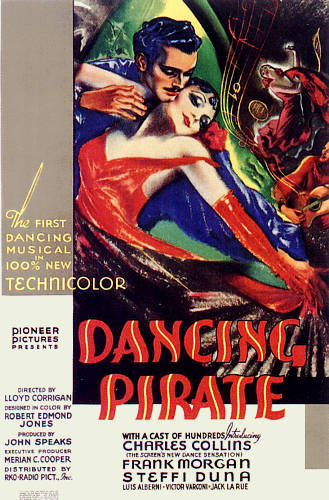 Poster for the motion picture Dancing Pirate (1936), the second feature made in three-strip Technicolor, directed by Lloyd Corrigan.